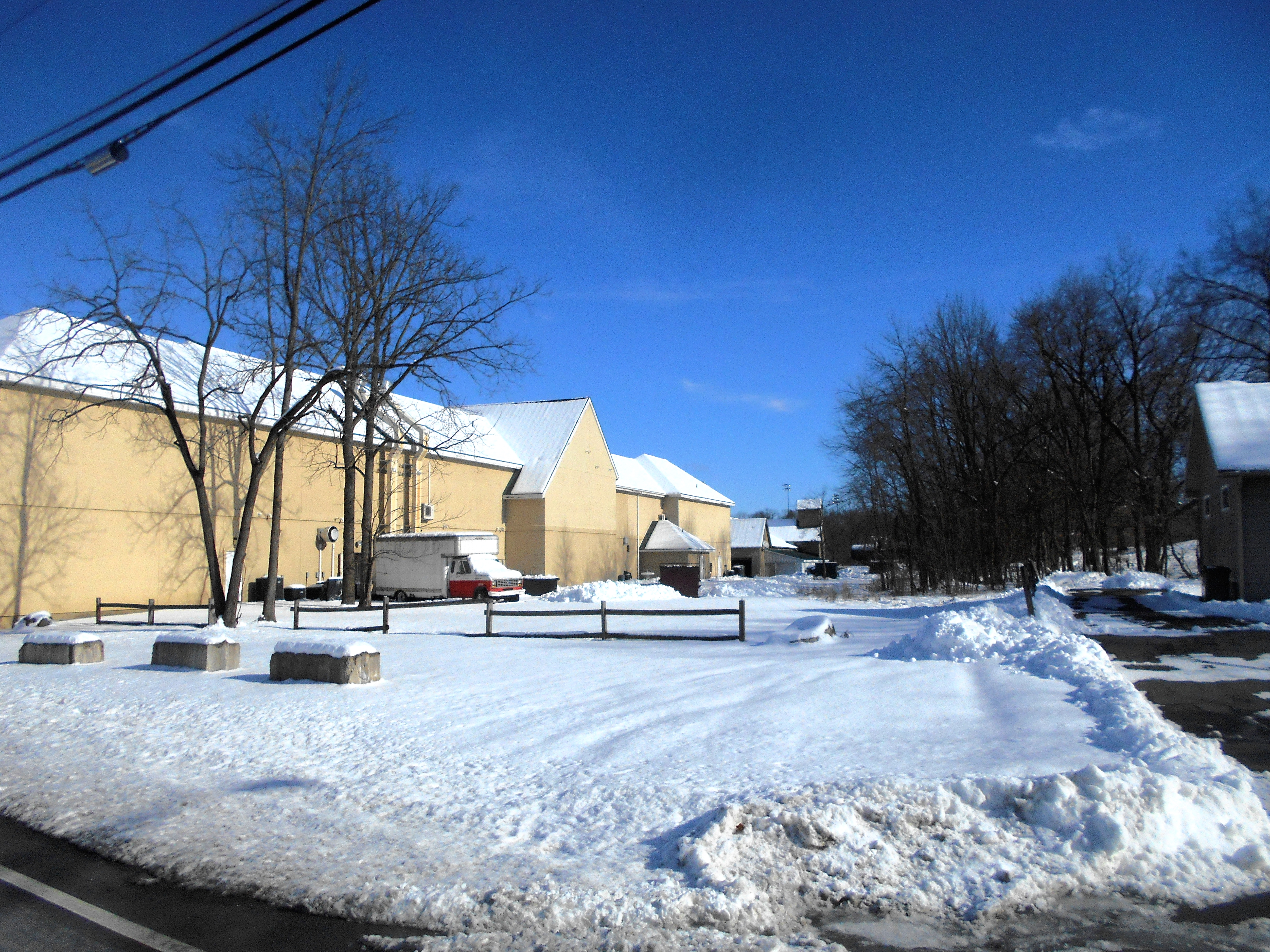 The former Erie Railroad station in Washingtonville, New York.